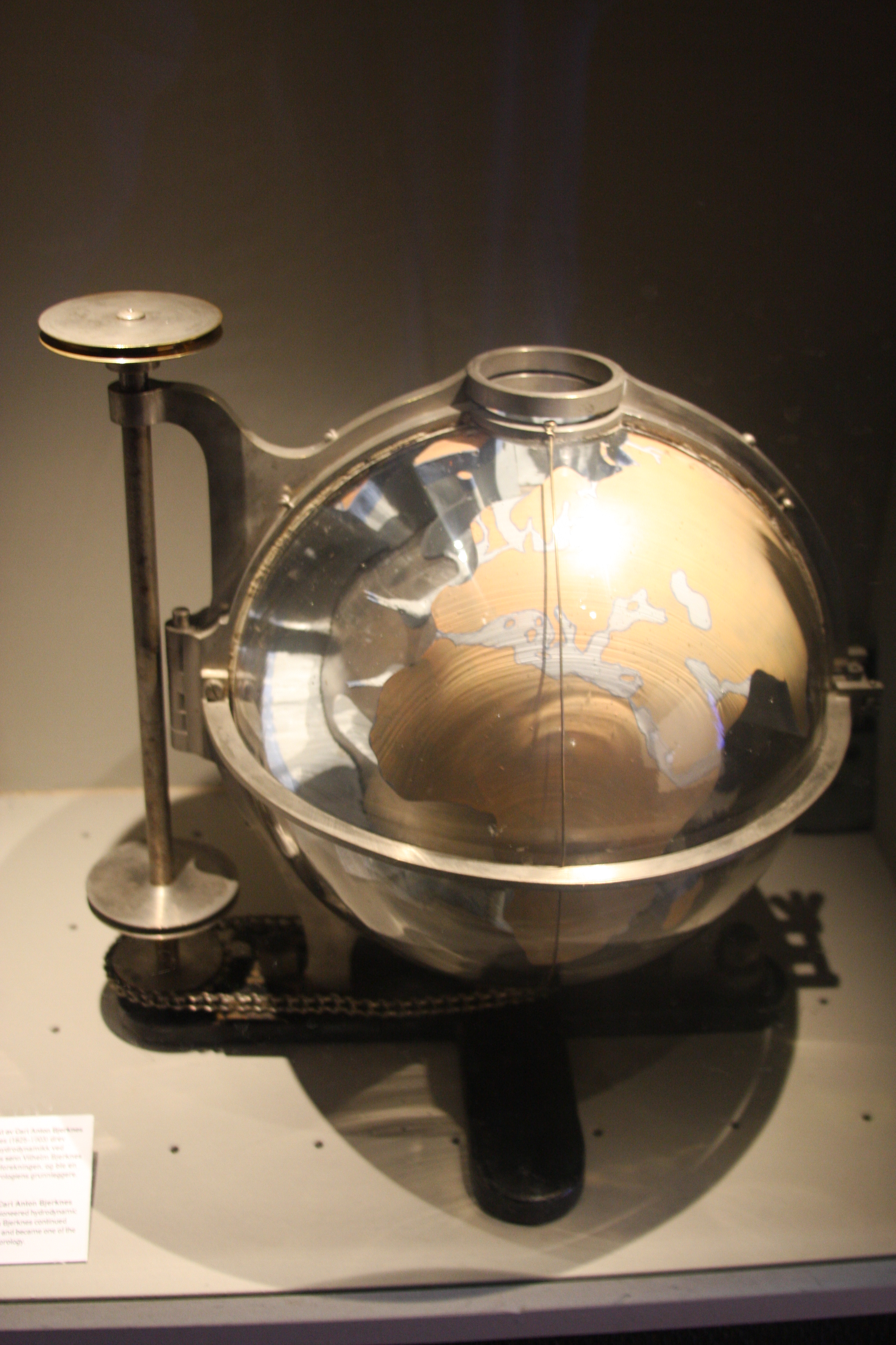 Scientific earth model by Carl Anton Bjerknes (1825-1903), University of Oslo, father of meteorology pioneer scientist Vilhelm (Wilhelm) Bjerknes. Technical Museum, Oslo, Norway.